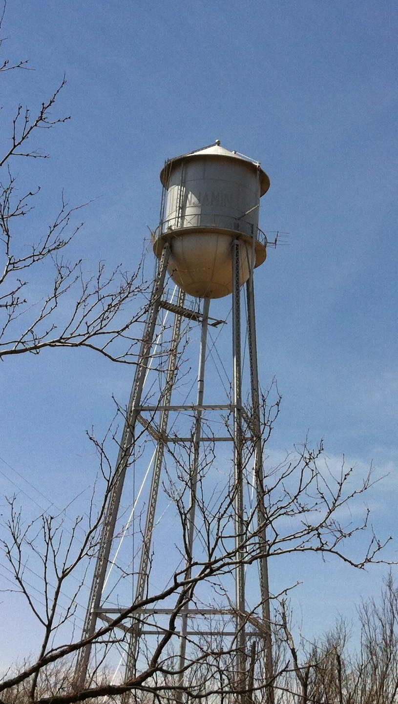 Water tower, photographed through trees